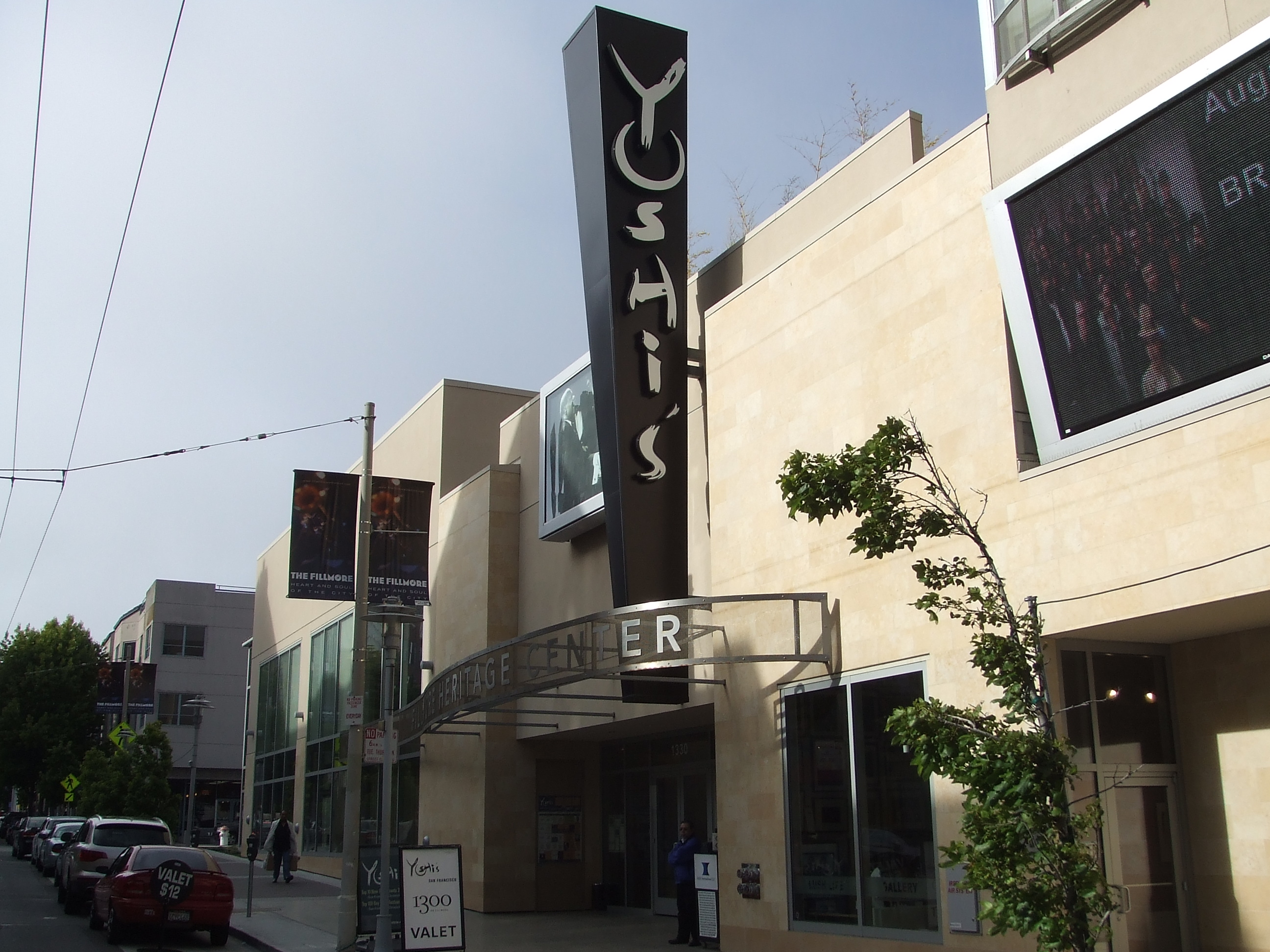 Yoshi's in San Francisco